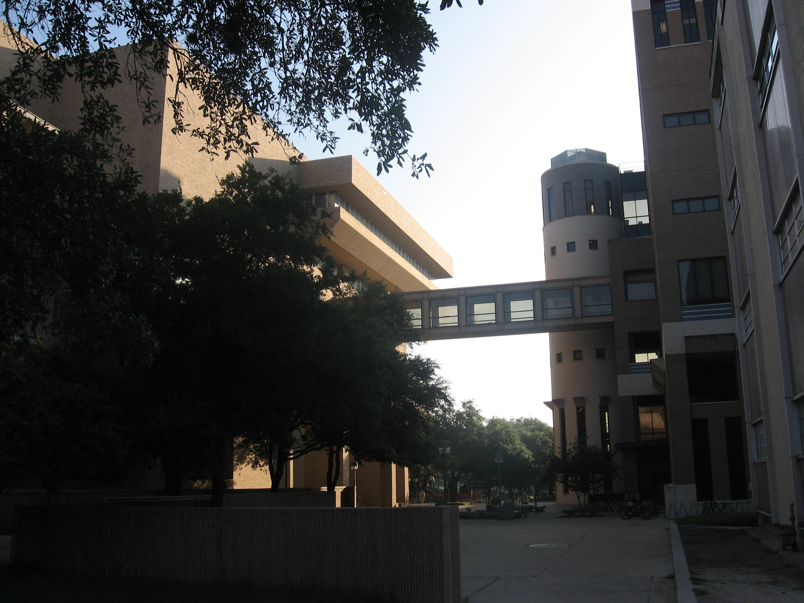 Texas A&M Evans Library (left) and Library Annex (right)